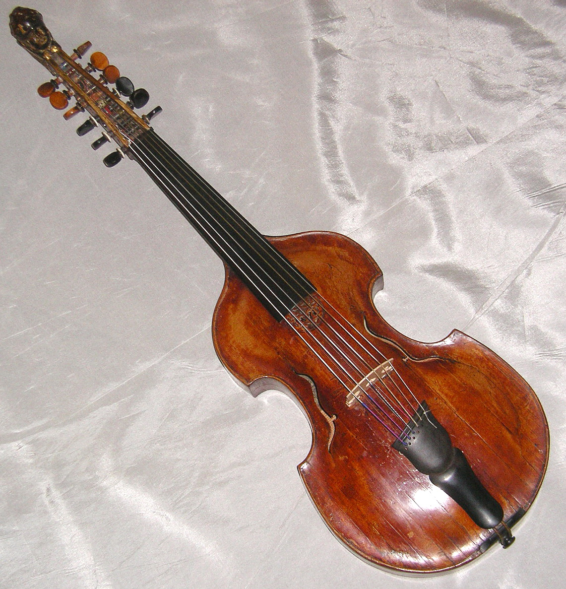 A Viola d'amore by Johann Paul Schorn, built no later than 1715 and no earlier than 1700. 6 playable and six sympathetic strings. Instrument belongs to Anton Steck.